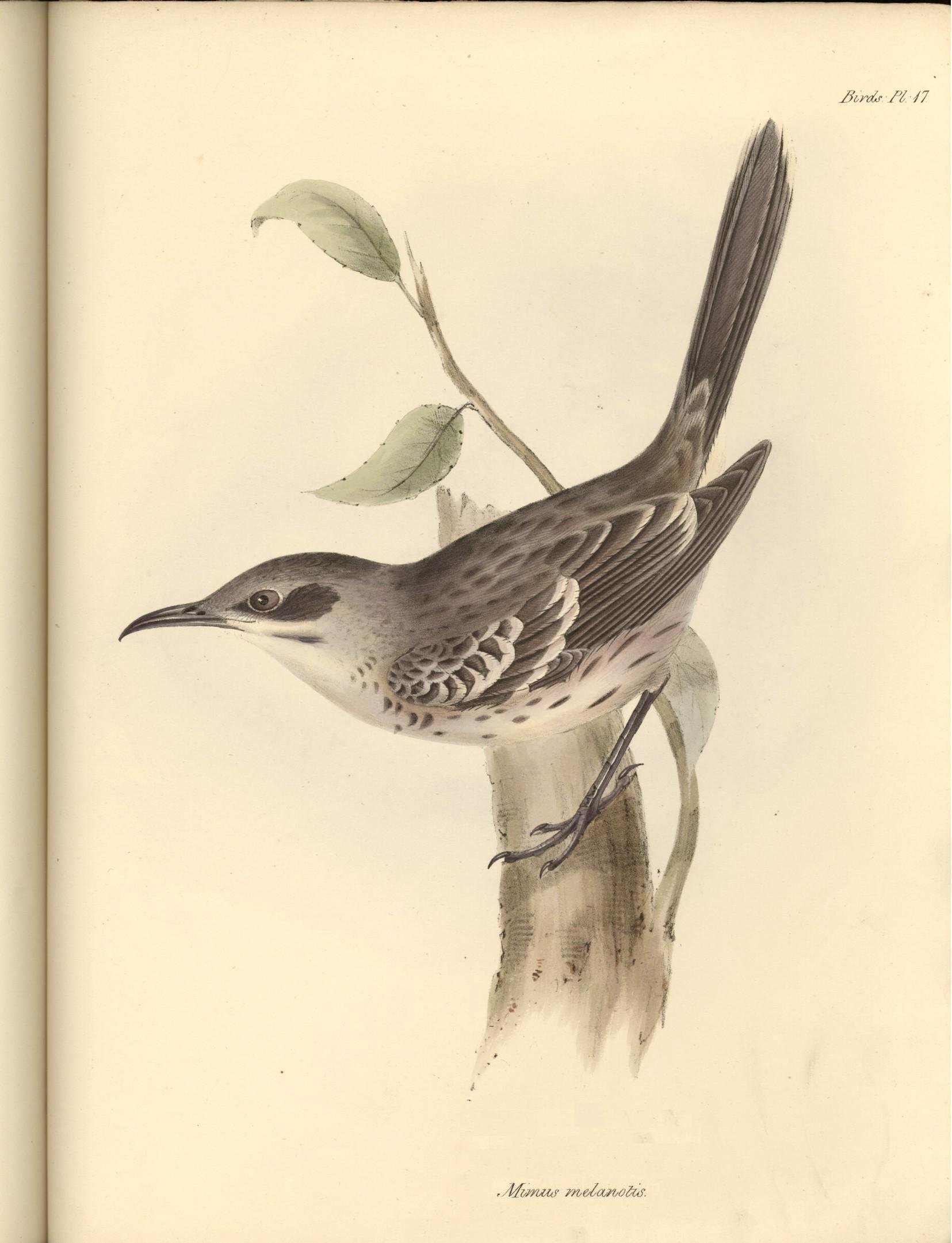 Mimus melanotis now named Nesomimus melanotis - San Cristobal Mockingbird